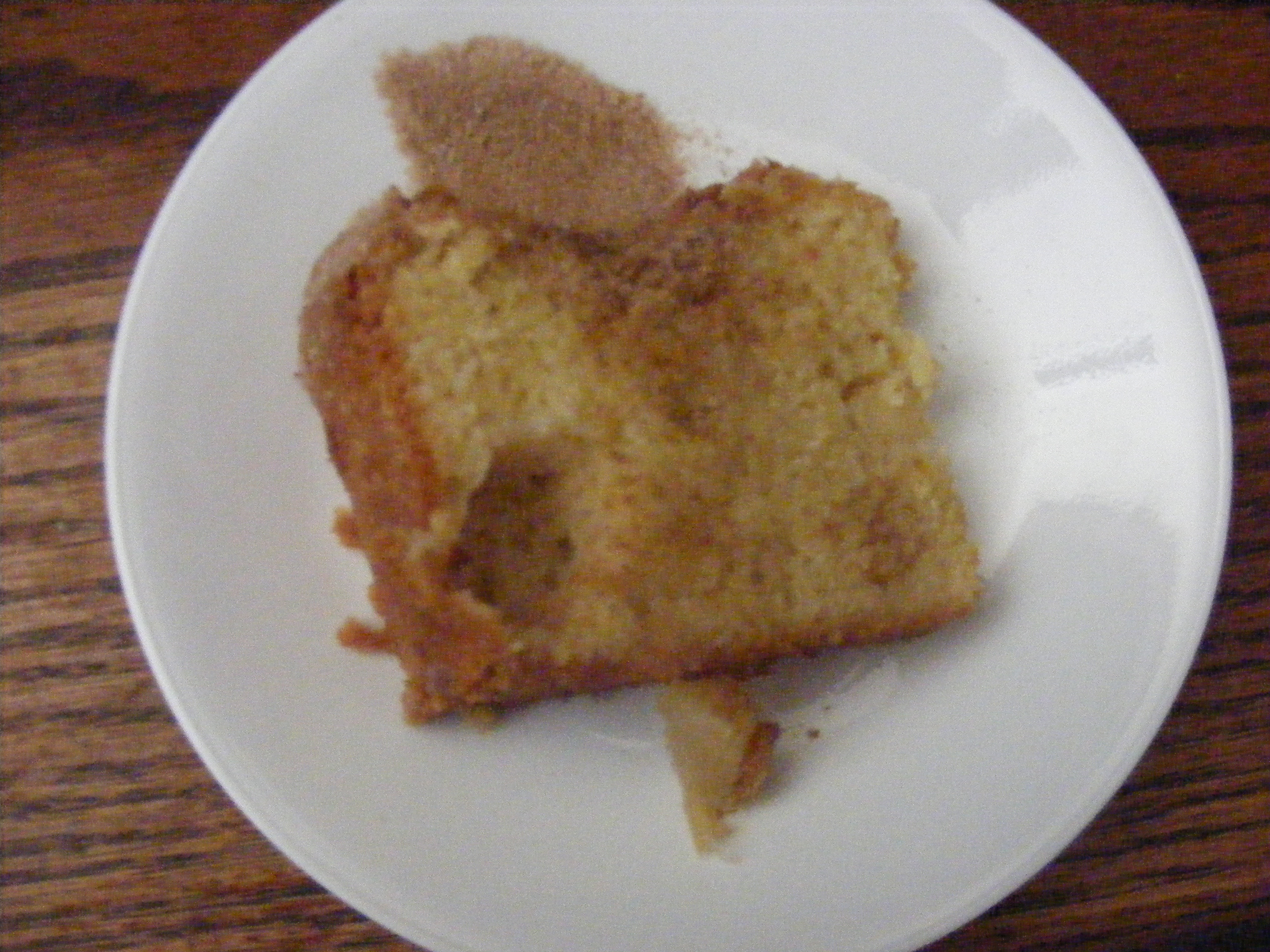 Jewish apple cake is a kind of dense cake made with apples and sold mostly in Pennsylvania in the United States.